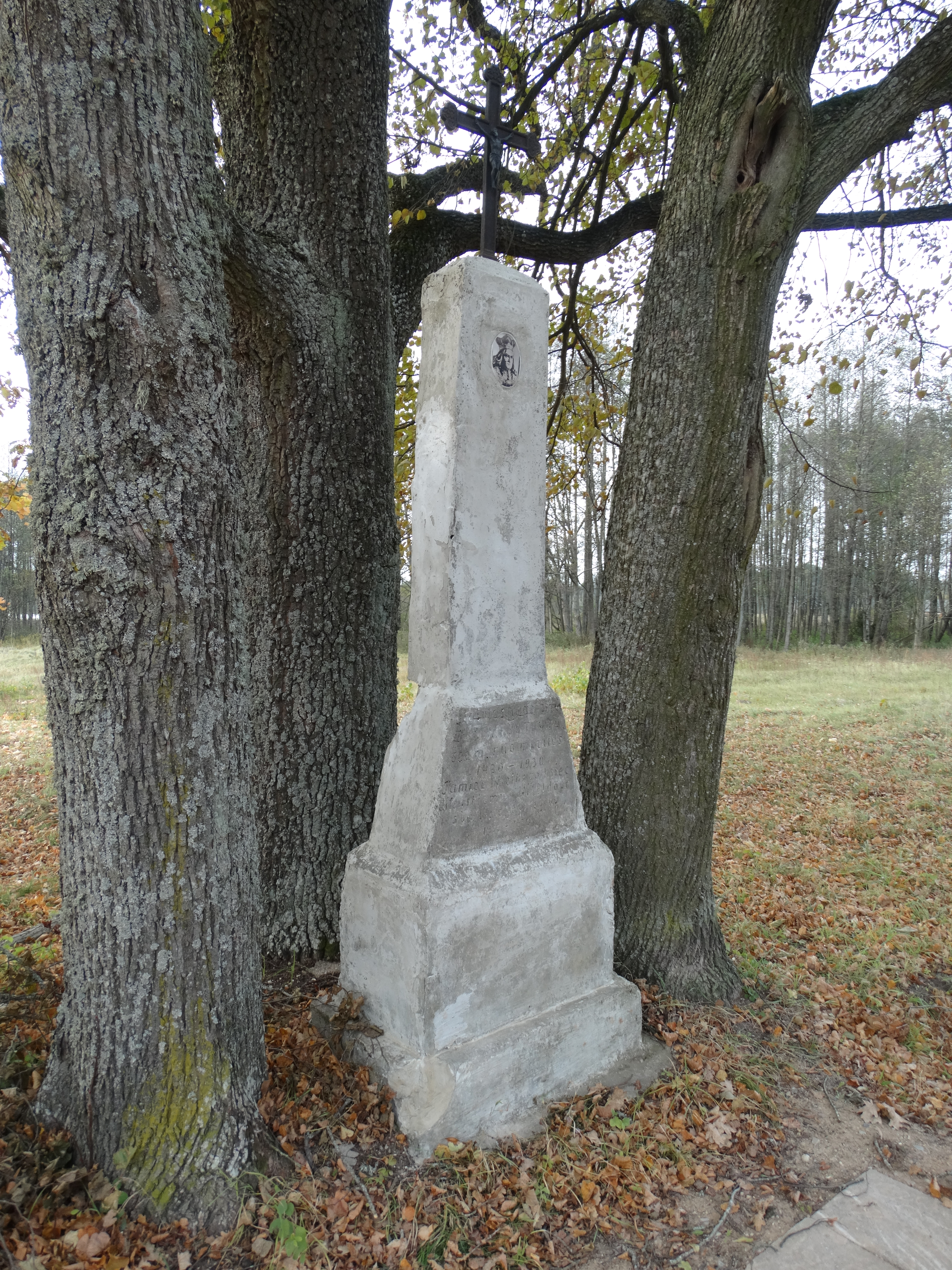 Memorial cross to Vytautas the Great, Randamonys, Druskininkai Municipality, Lithuania